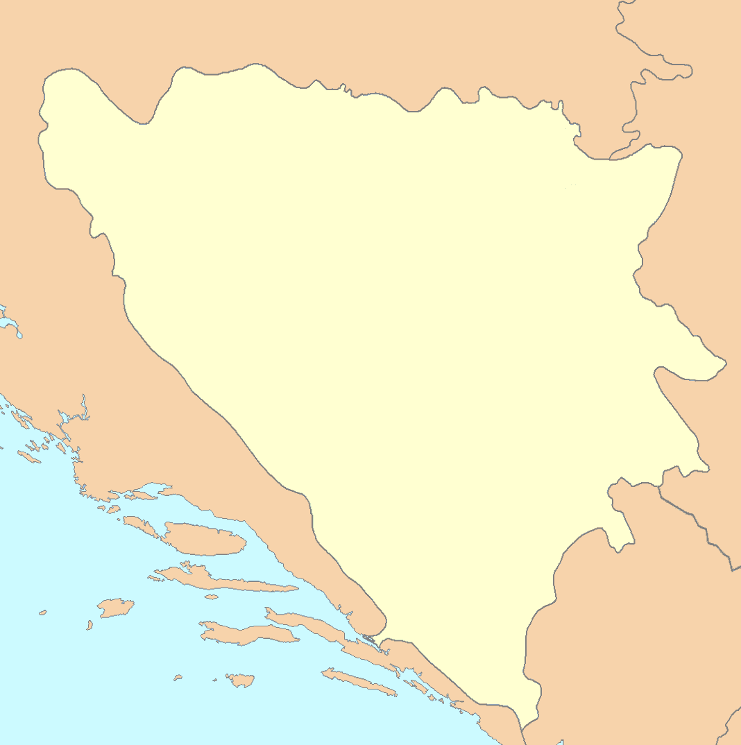 BiH Outline map for the Bosnian Wikipedia